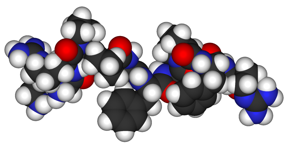 Space-filling model of kallidin. Created using Accelrys DS Visualizer Pro 1.6 and GIMP.